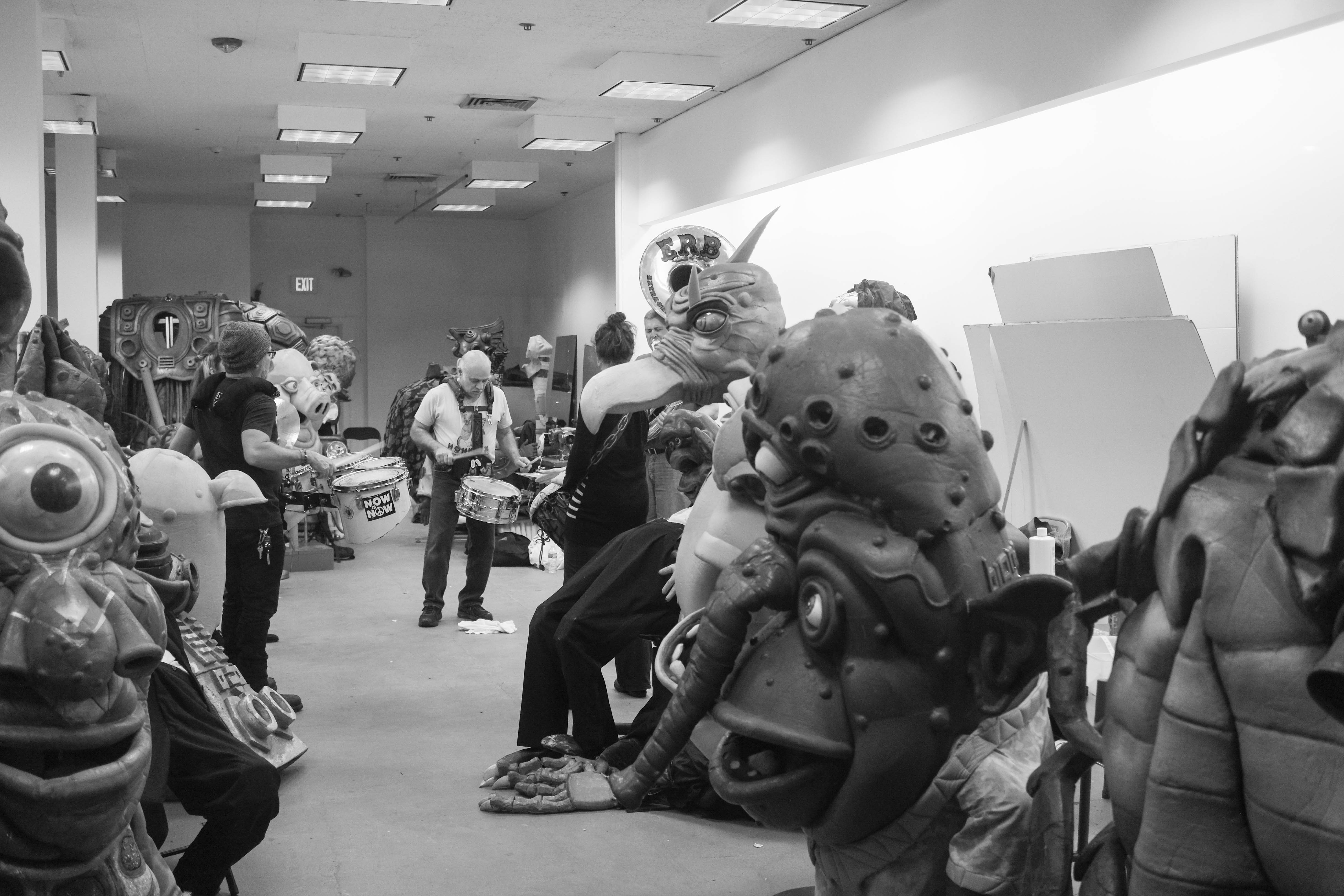 Big Nazo Puppet Company Band Practice